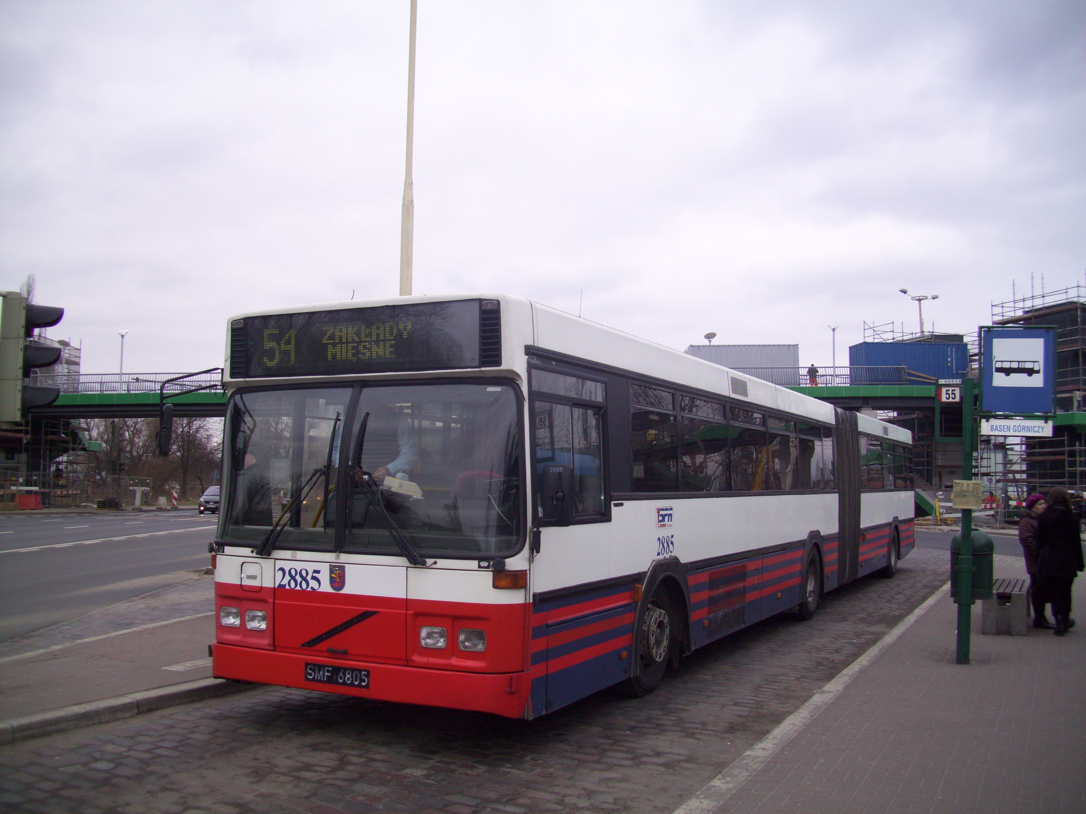 Volvo B10MA bus (#2885, reg. SMF 6805) in Szczecin, Poland. Built 1998, SPA Dąbie operator.